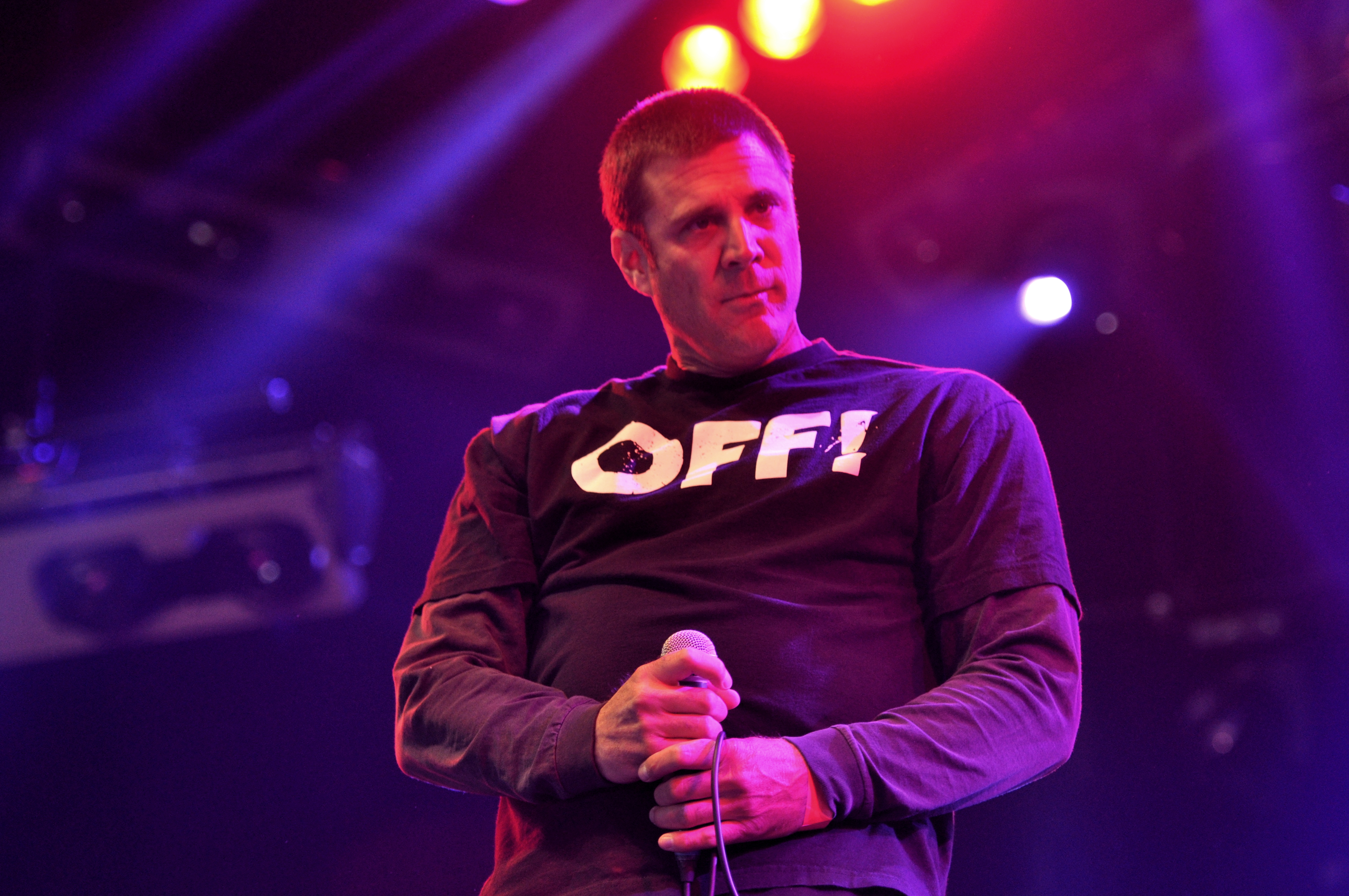 Scott Radinsky of Pulley at Groezrock 2013, Belgium